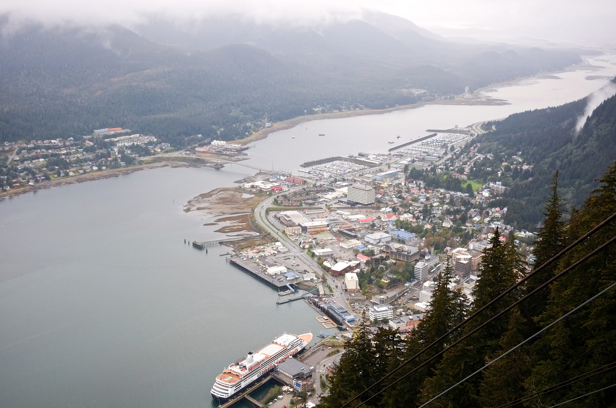 Aerial view of Downtown Juneau, the cruise ship port, and Douglas Island from the Mount Roberts Tramway.